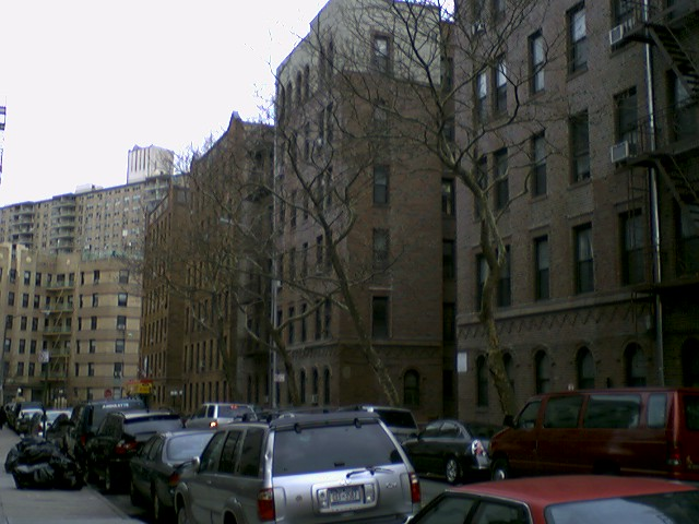 Brighton 15th street, full of average living houses.